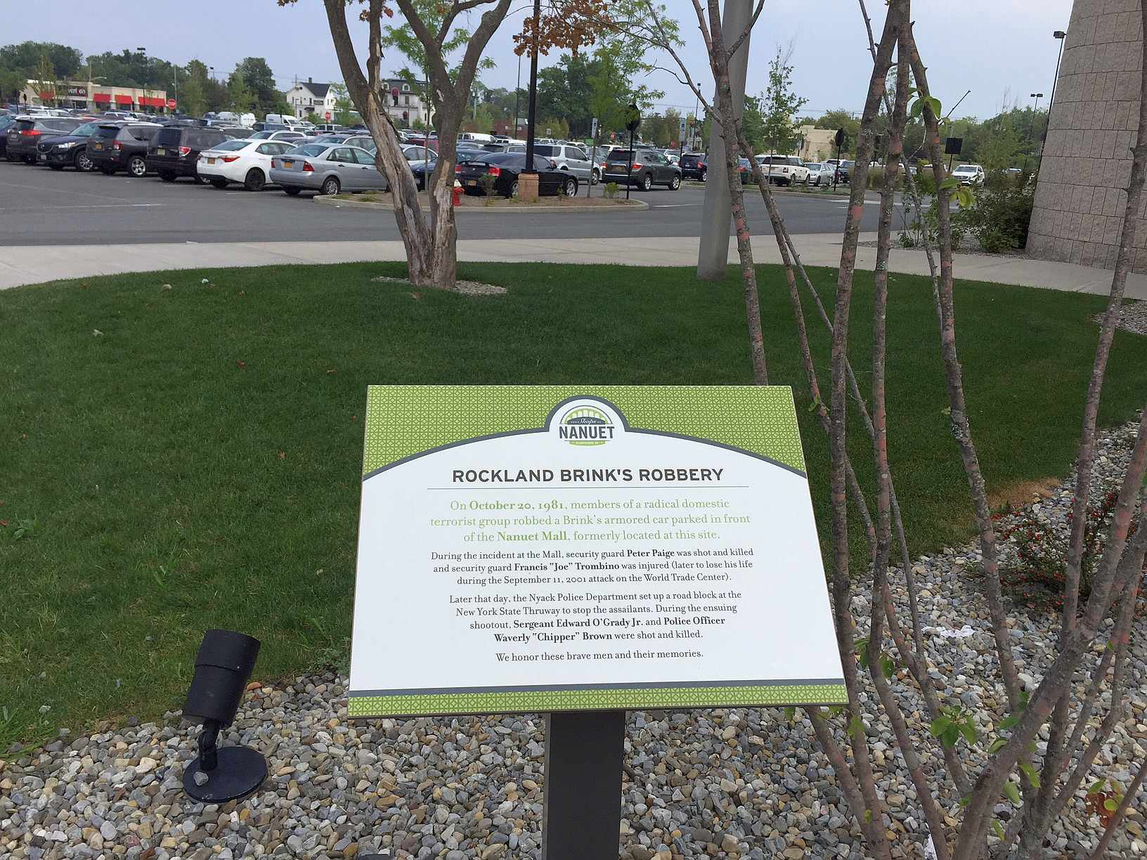 Location in 2016 of where the Brinks Armored Truck was park at the time of the incident. Northestern corner of Macy's Department Store, 41°05'42.6"N 74°00'55.4"W.